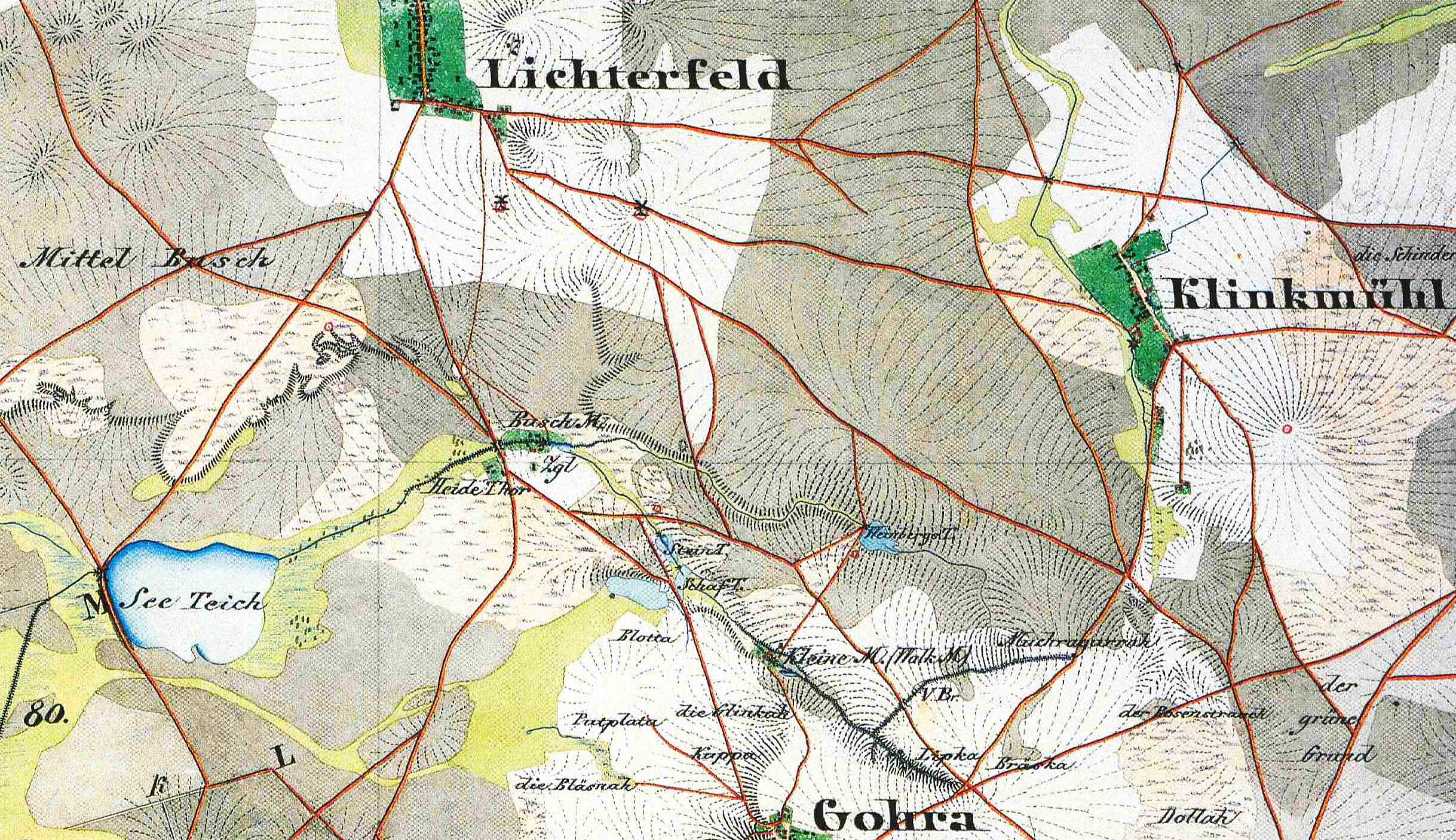 Lichterfeld, Lkr. Elbe-Elster, Brandenburg, Germany, detail from the Urmesstischblatt Sheet 4548 Lauchhammer-Grünewald, drawn in 1847